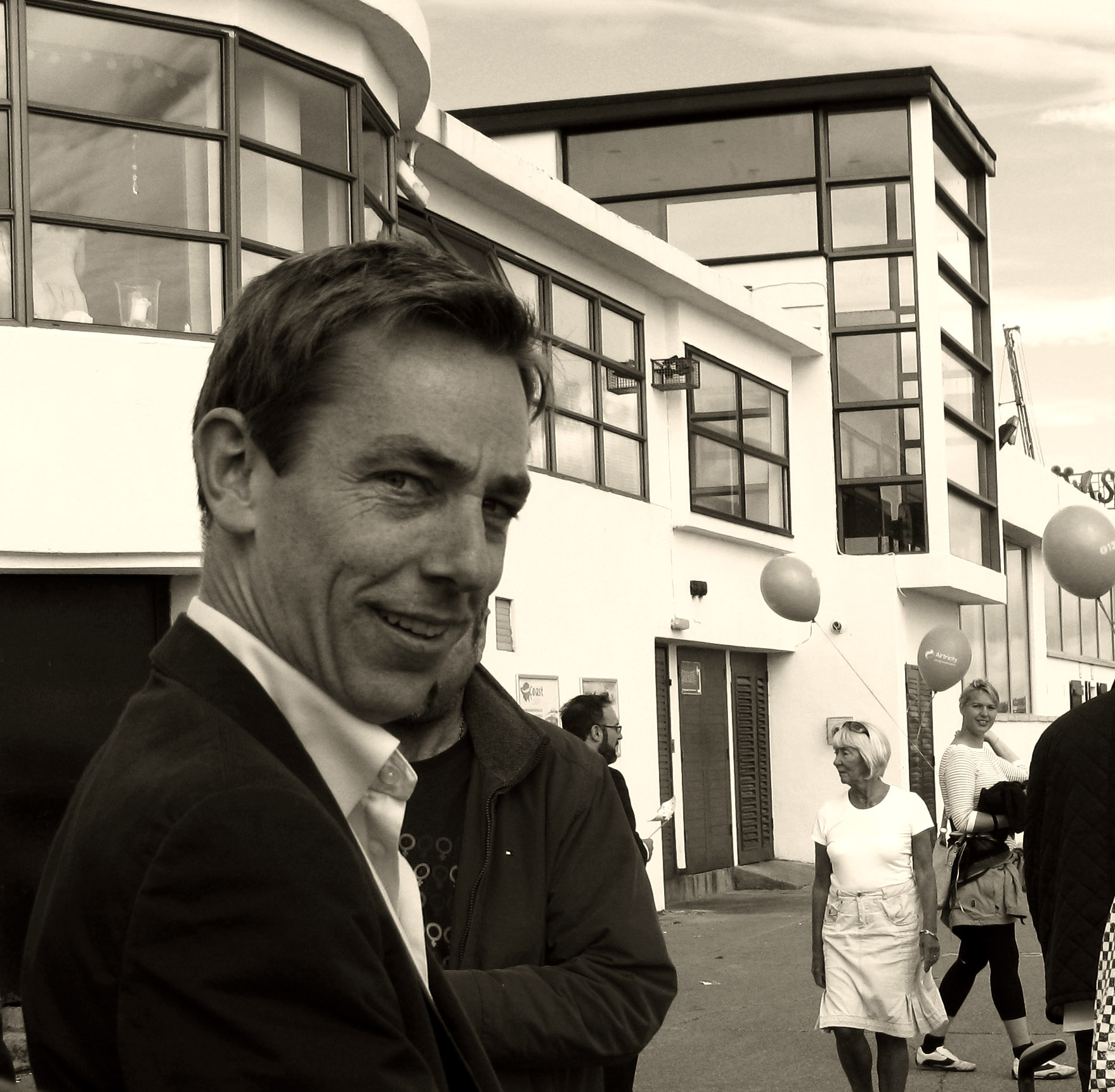 Irish broadcaster Ryan Tubridy on his last day of presenting The Tubridy Show.